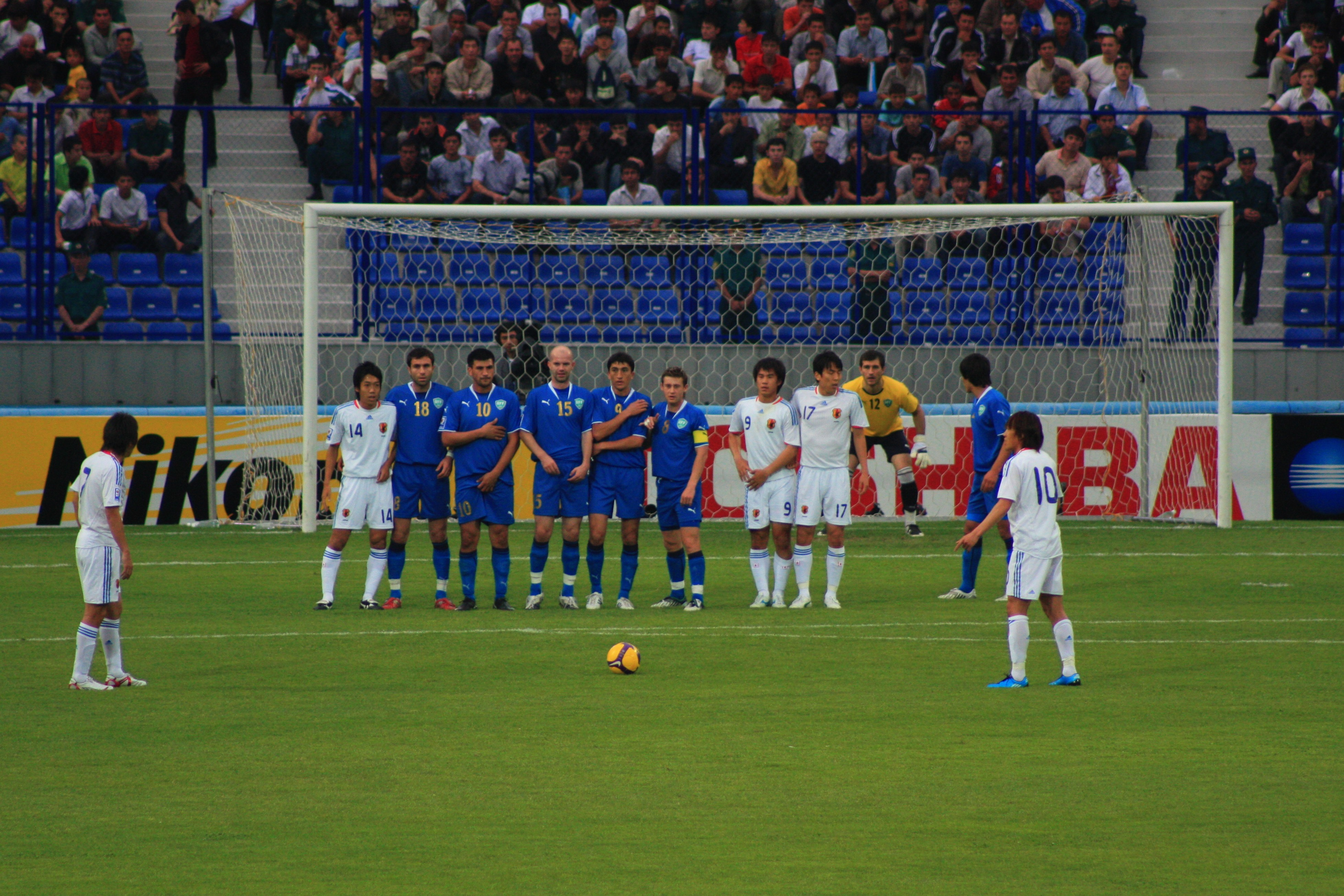 Free kick during qualification match for the 2010 Soccer World Cup (Asian zone) : Uzbekistan 0-1 Japan, at Pakhtakor Stadium, in Tashkent (Uzbekistan). Uzbekistan is in blue, Japan in white.